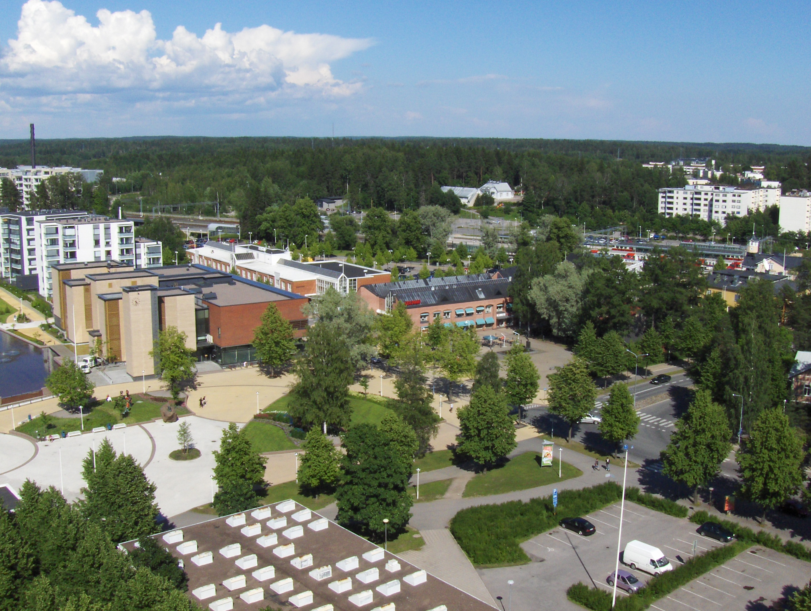 Kerava. Photo taken from the 15th floor of an apartment building. The picture shows the town library (the building with the clock, left), and train station on the far right (light-green tower, the building itself is obscured behind trees). The building in the foreground is the old library, due to be demolished in the near future. The trees in the horisont are most probably on the area of county of Sipoo. On left, the pipe belongs to Kerava's power plant.